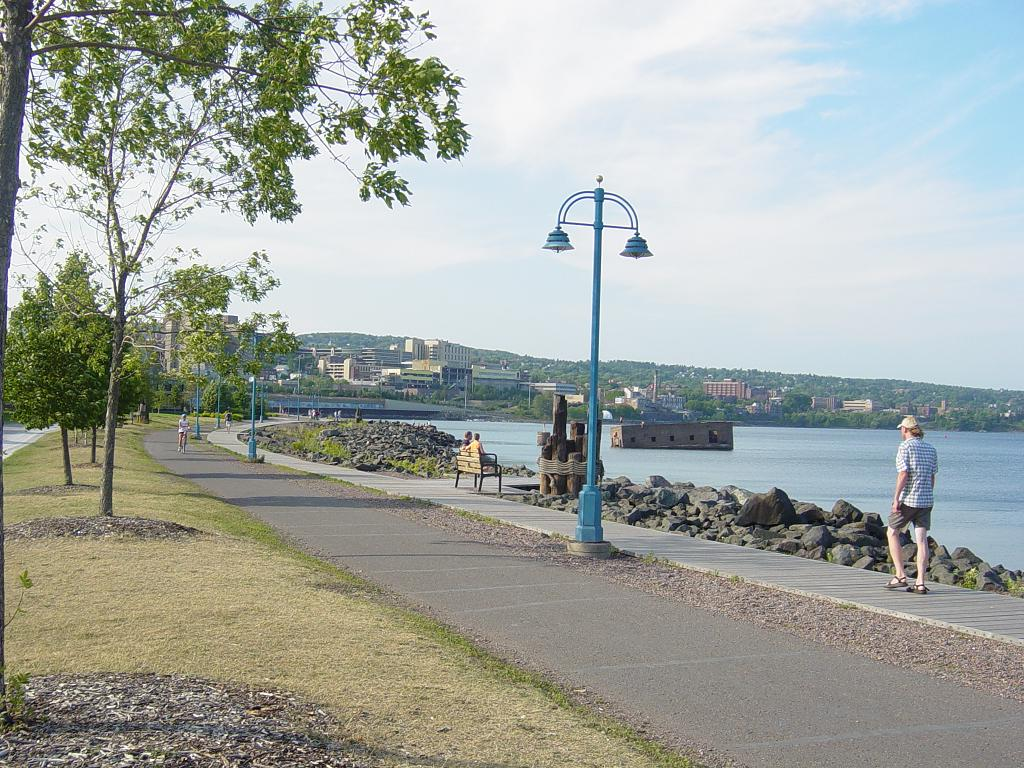 The Lakewalk in Canal Park. Taken August 8, 2005 by Jacob Norlund (me).